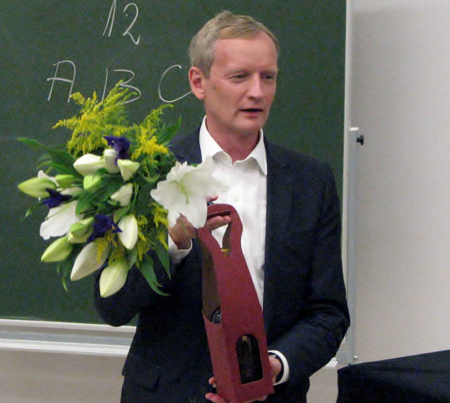 Tiit Land Mihhail Lotmanile pühendatud sümpoosionil